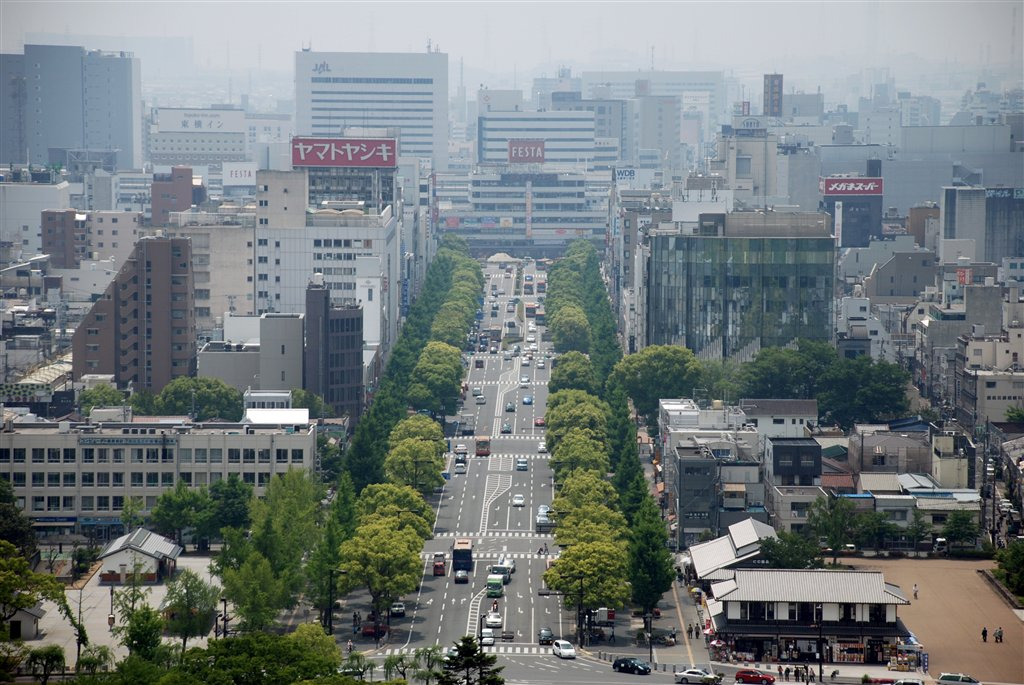 Otemae-dori in Himeji, Hyogo pref., Japan.